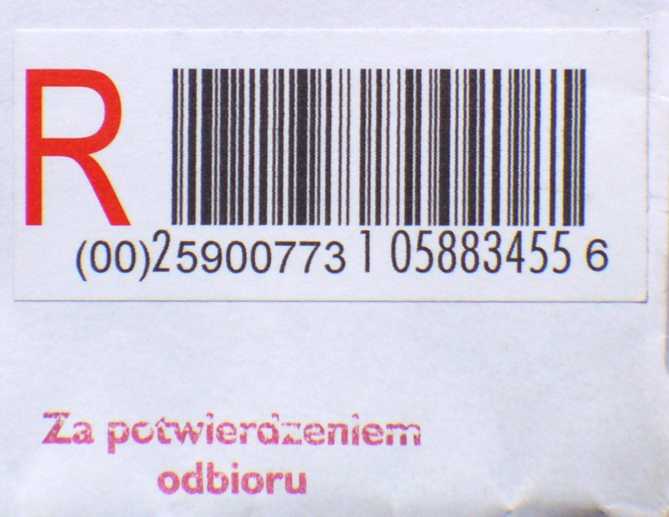 Registerd mail sticker barcode with 'confirm receipt' stamp